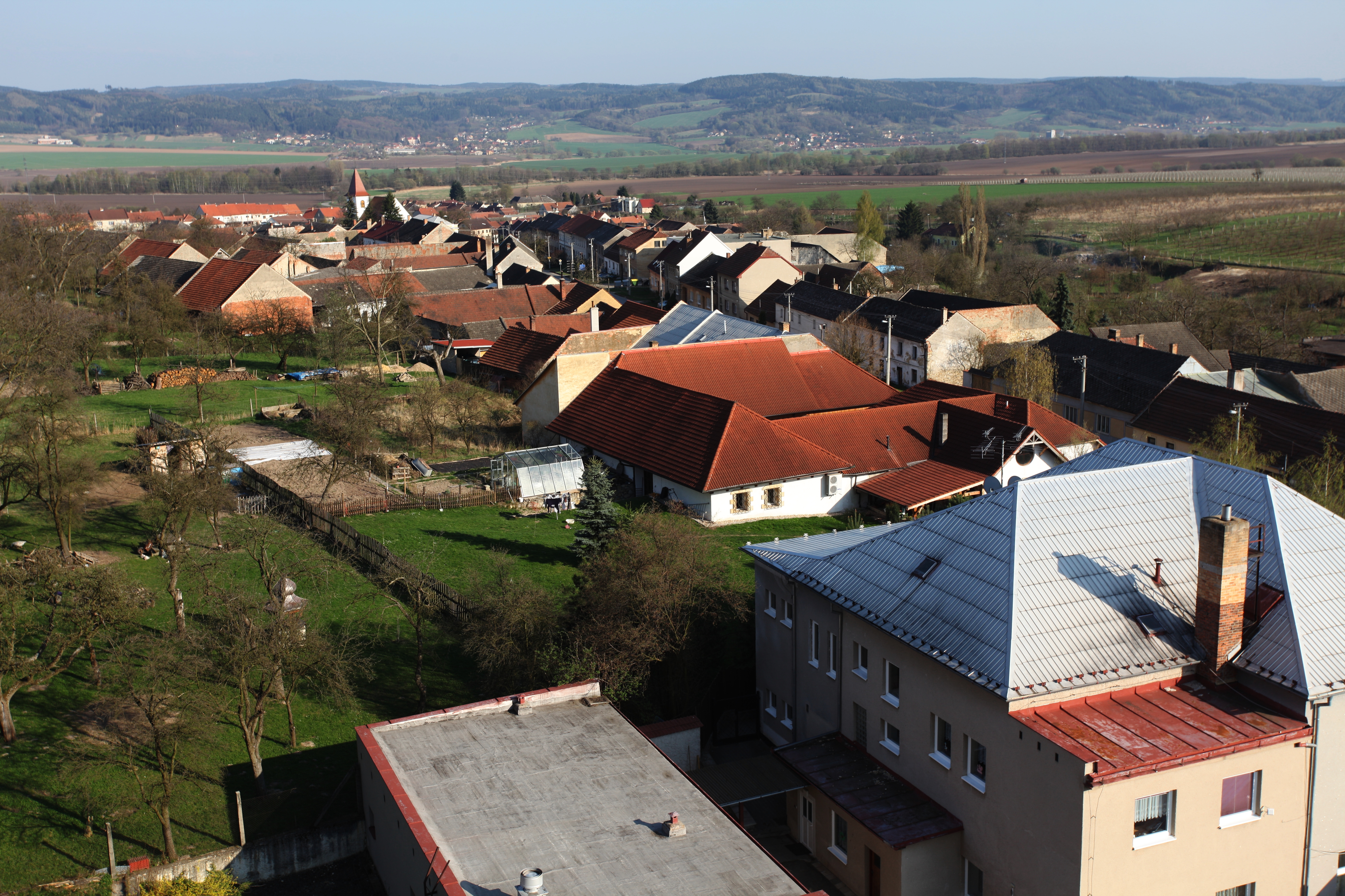 View of Vanovice from the tower of evangelical church